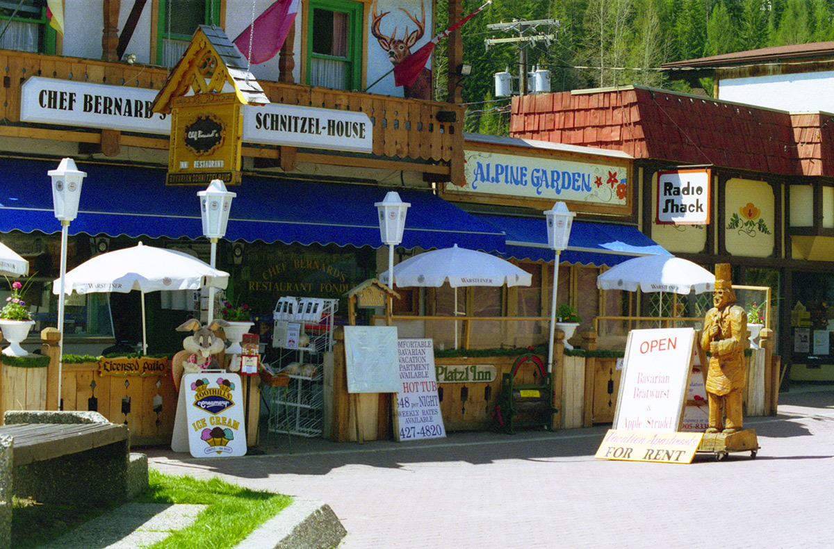 Danish village buildings in Kimberly, British Columbia, Canada